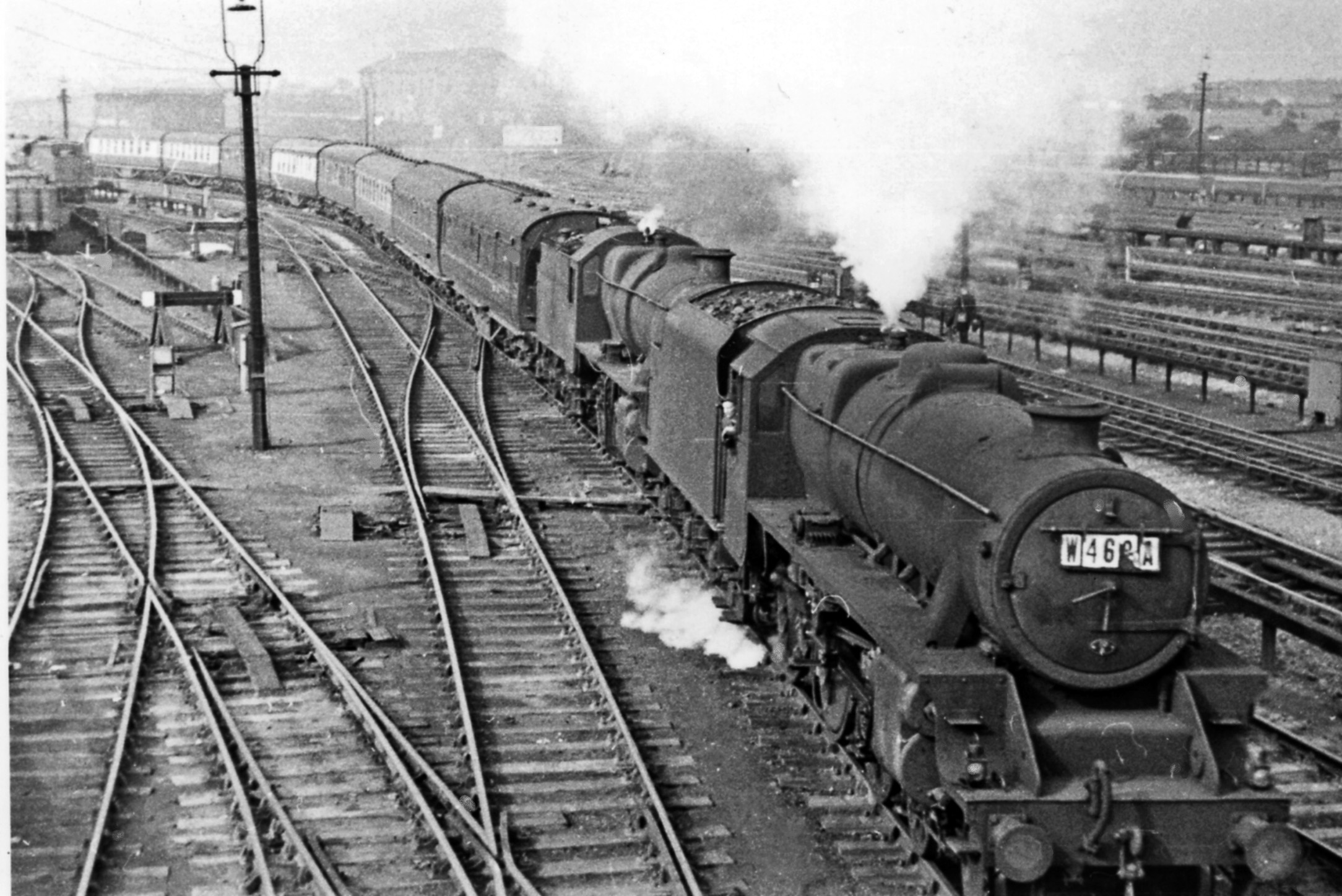 Relief express from North Wales via Chester entering Crewe. View northward, towards the North by the WCML, on the left towards Chester and to the right towards Manchester: ex-LNWR major junction. This Up train is seen from the footbridge crossing from the Chester line the other lines at Crewe North Junction and passing Crewe North Locomotive Depot; unseen underneath are the Independent Lines conveying most of the freight traffic. The 13.40 Llandudno - Derby is headed by Stanier 5MT 4-6-0 No. 45416 (built 1937, withdrawn 7/65) piloting Stanier 5MT 2-6-0 No. 42951 (built 1933, withdrawn 3/66);it will proceed from Crewe via Stoke-on-Trent.